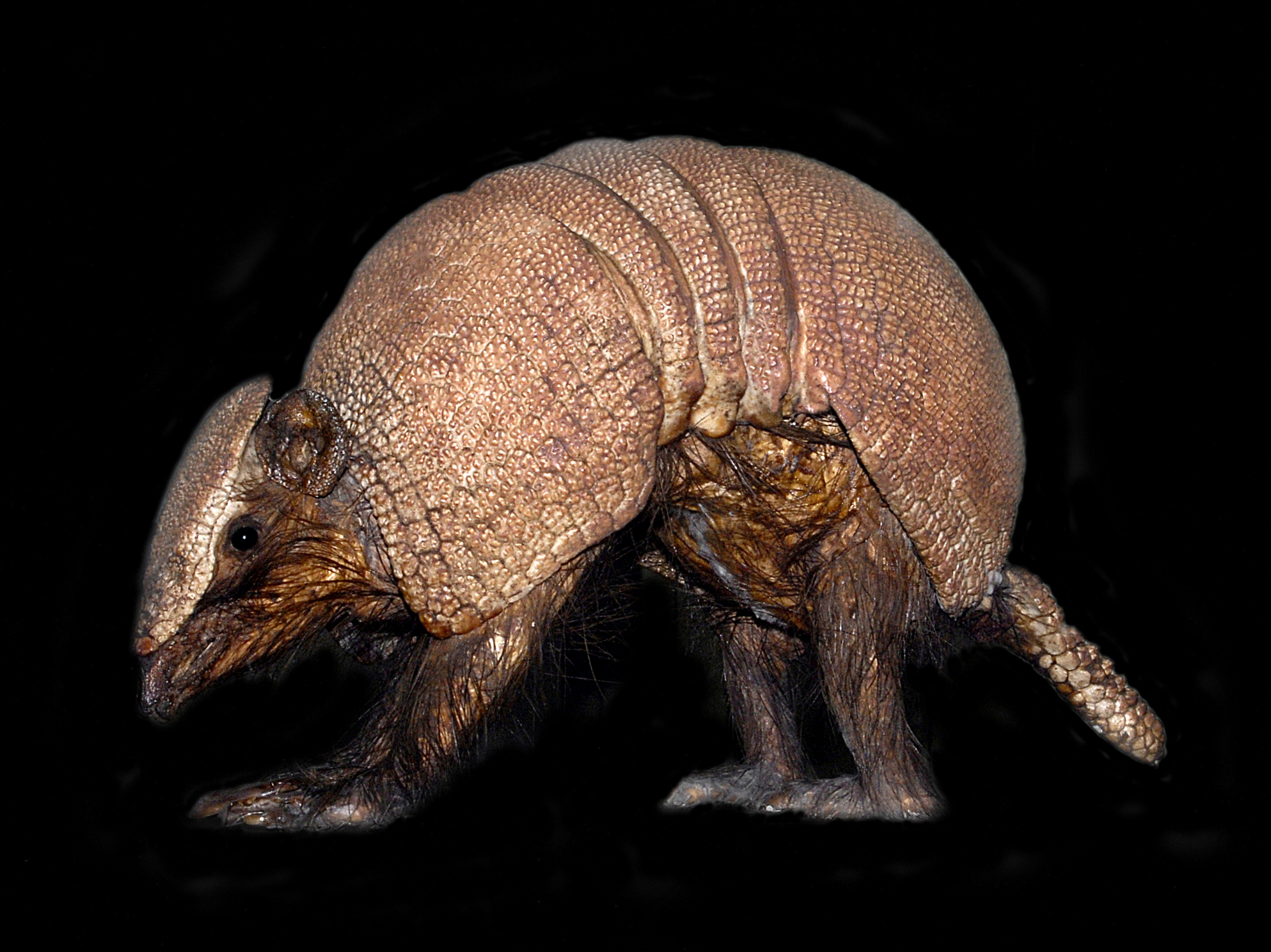 Tolypeutes tricinctus on display at Museo di Storia Naturale di Pavia